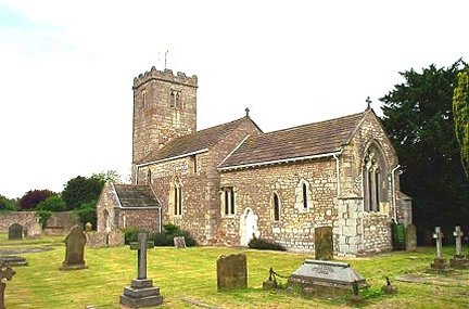 Newton Kyme, St Andrew's Church.